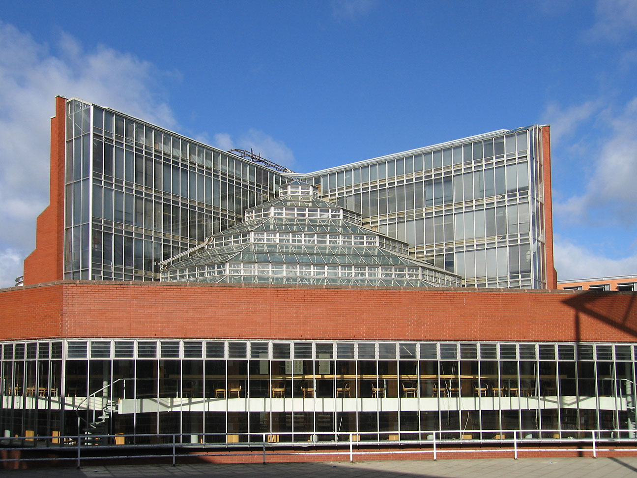 History Faculty building on the Sidgewick Site of the University of Cambridge. Designed by James Stirling in 1968.